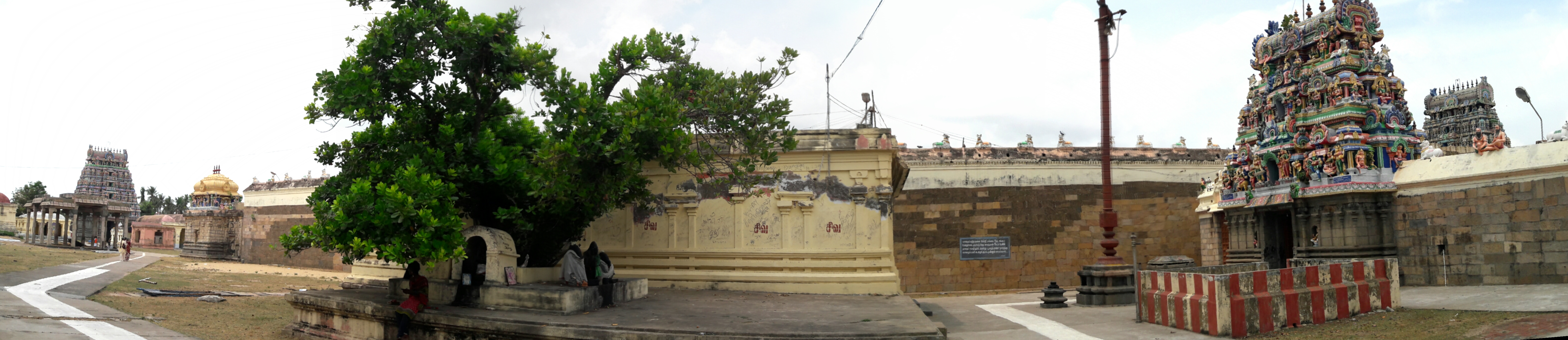 Vedaranyeswarar temple, Vedaranyam